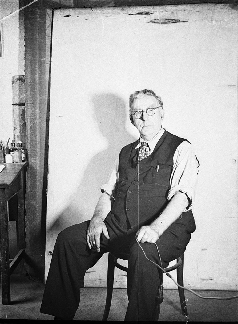 Samuel J Hood, self portrait, ca. 1935, copy from original nitrate negative, State Library of New South Wales Home and Away - 32988